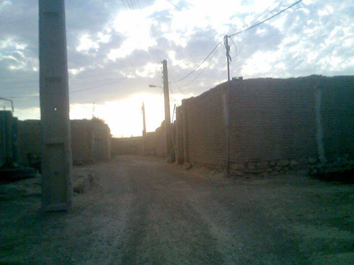 yengejeh